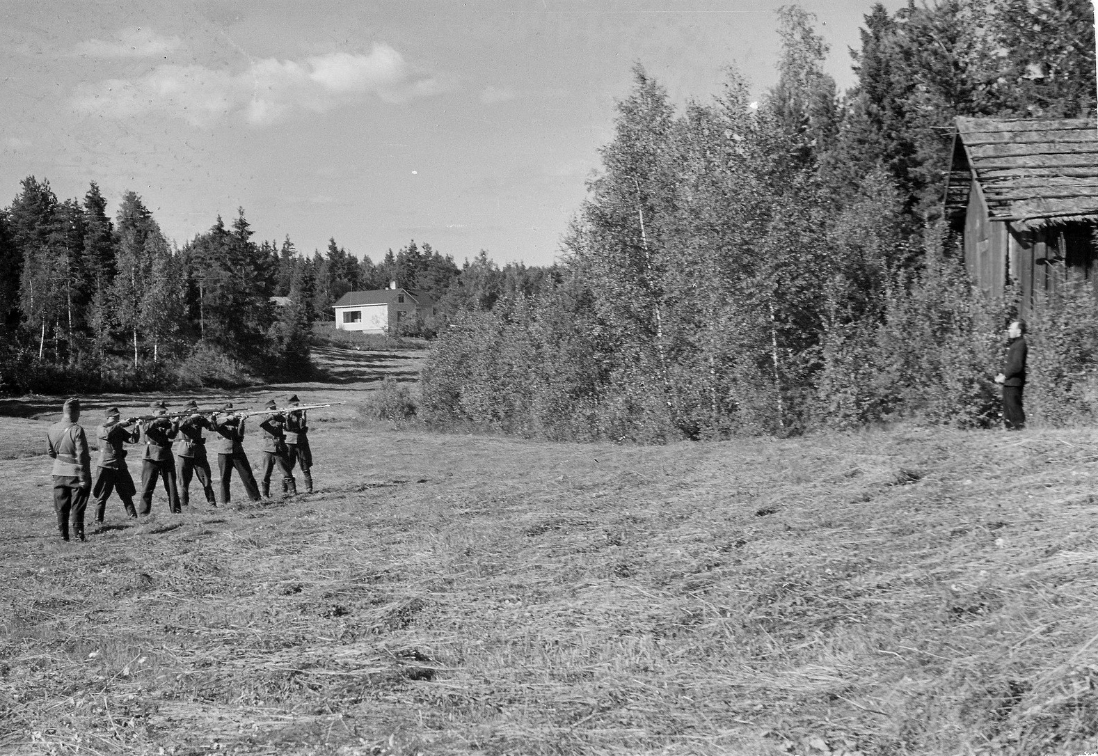 Image from the Winter War and Continuation War between Soviet Union and Finland